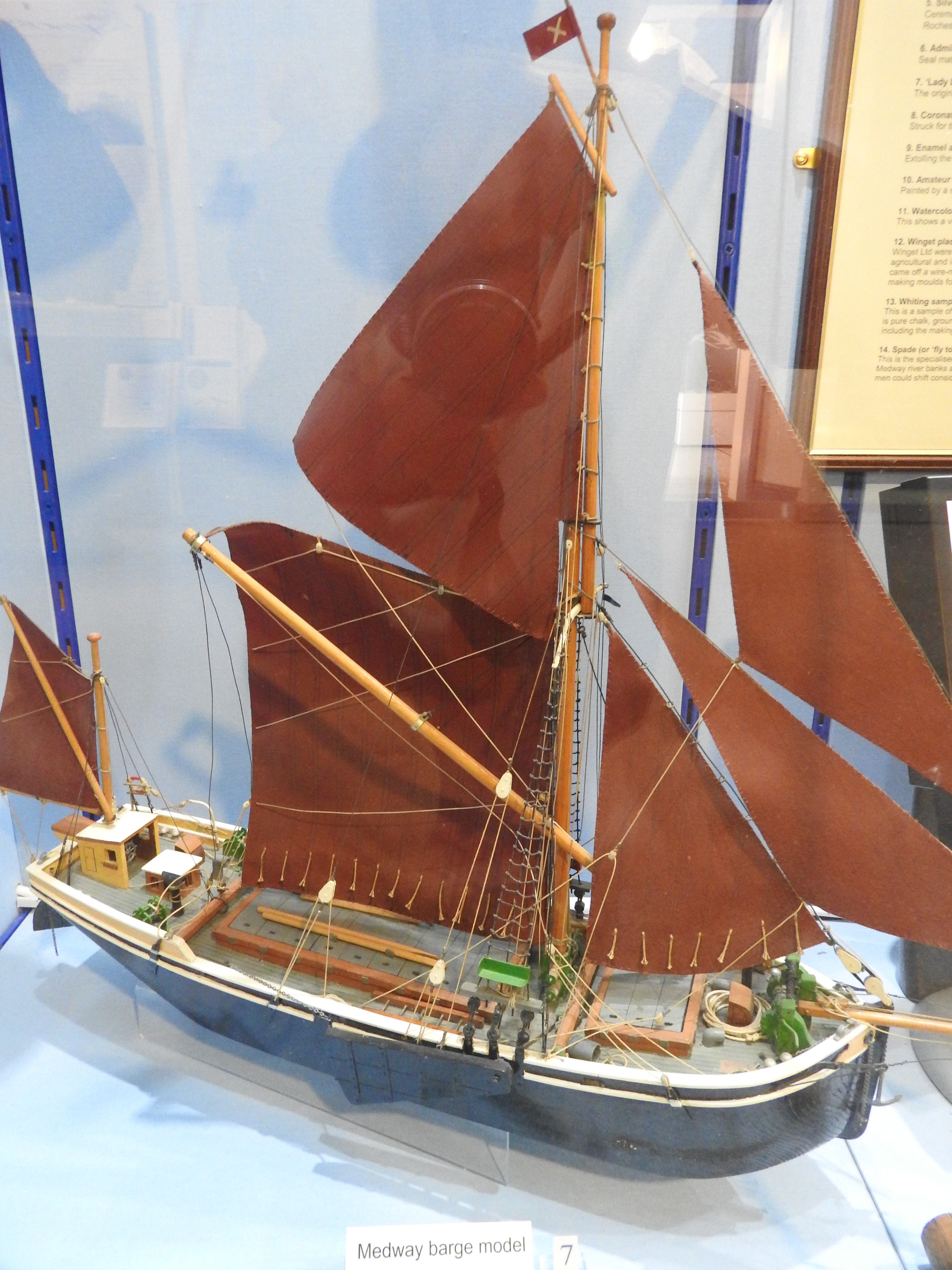 Rochester Guildhall museum has a collection of models displayed behind glass. This is the Lady Daphne (1923) .